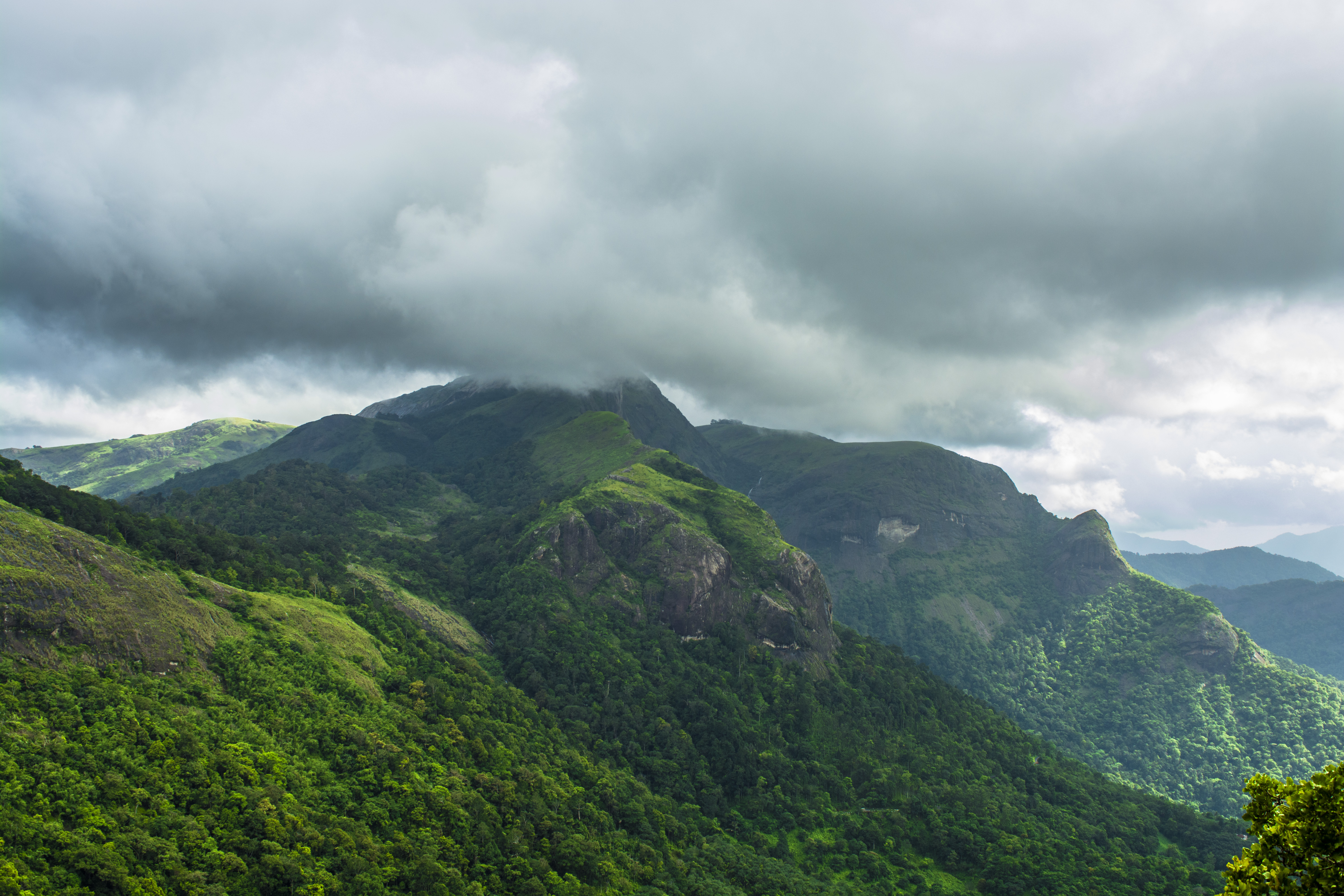 The Western Ghats from Nelliampathi, in Palaghat, Kerala